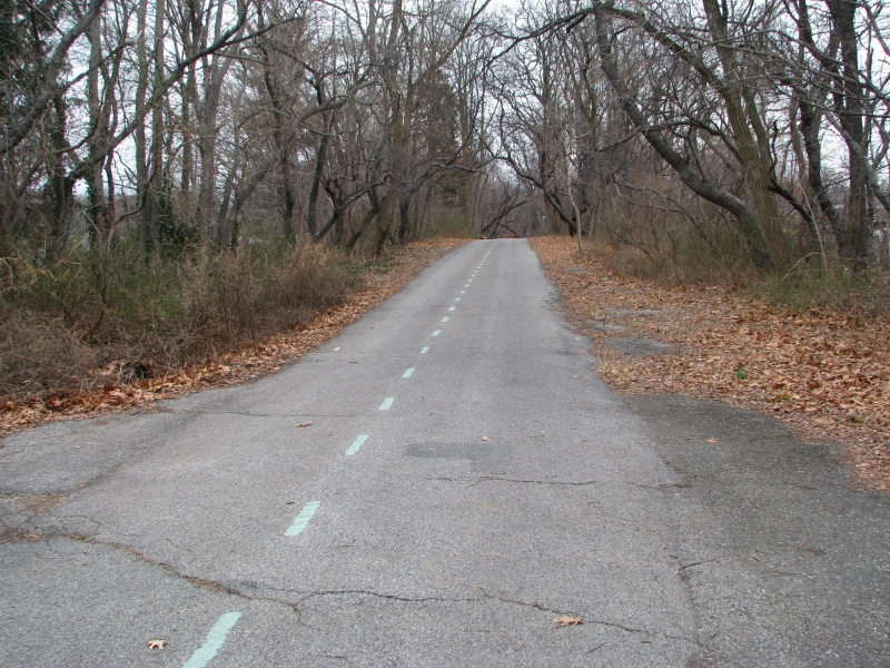 Original picture by Steve Nowotarski, January 2008. View of remnant of Long Island Motor Parkway at Springfield Blvd in Oakland Gardens. Looking East.